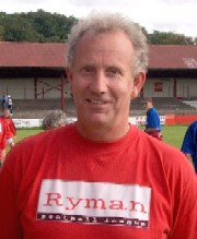 Ron Hillyard photographed in 2001. My own picture